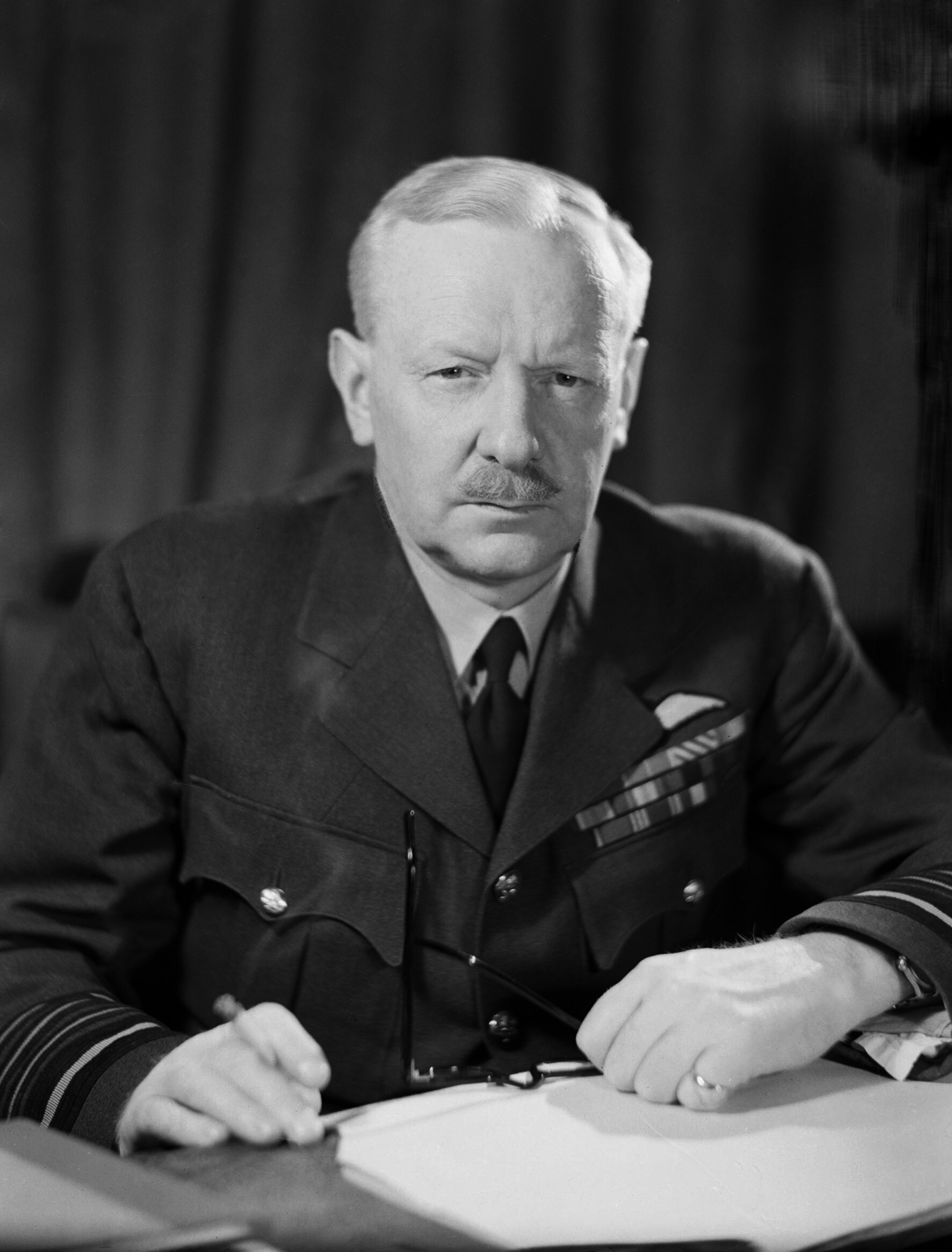 Air Chief Marshal Sir Arthur Harris, Commander in Chief of Royal Air Force Bomber Command, seated at his desk at Bomber Command HQ, High Wycombe.